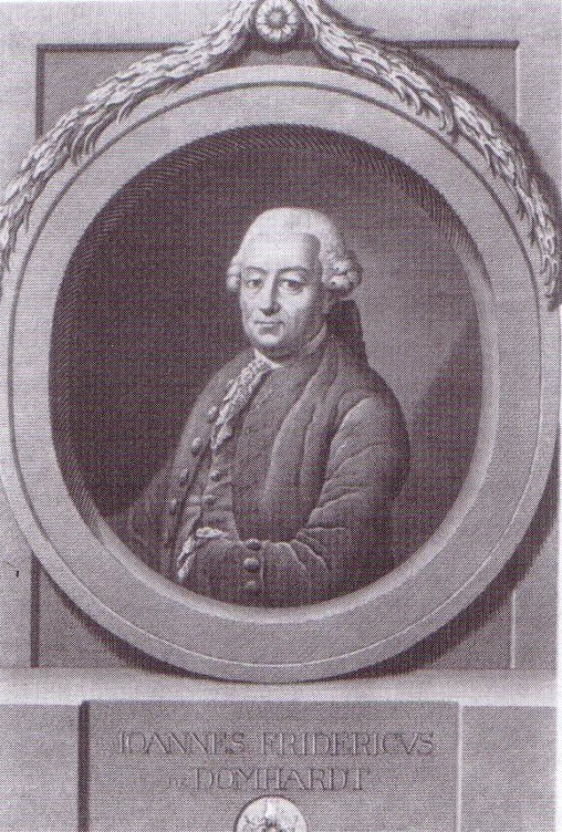 Johann Friedrich Domhardt (1712-1781), Prussian government official